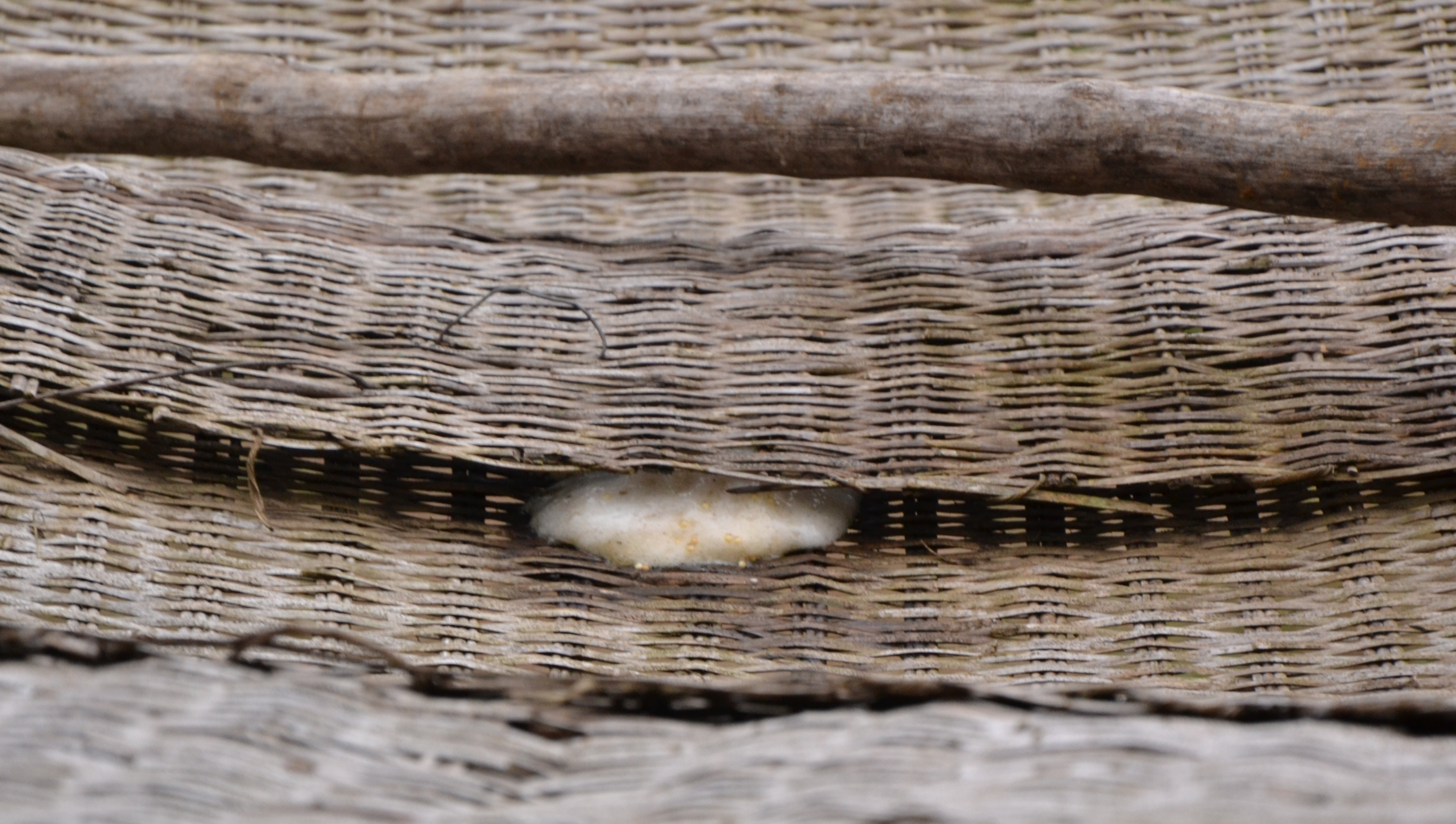 a foam nest built by Racophorus Malabaricus